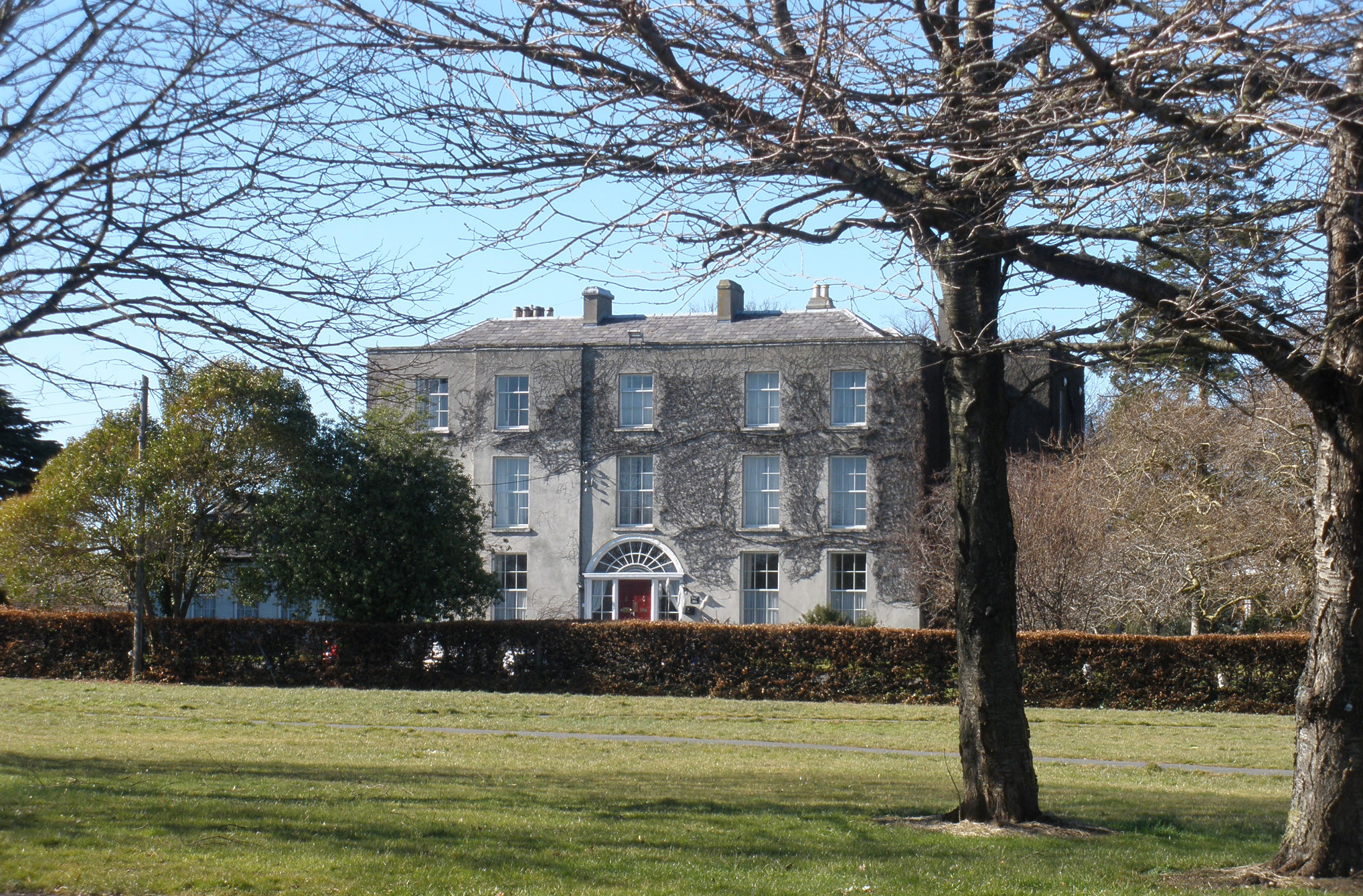 Cypress Grove House, built about 1740, on Cypress Grove Road in Templeogue, Dublin, Ireland, occupied by the White Fathers